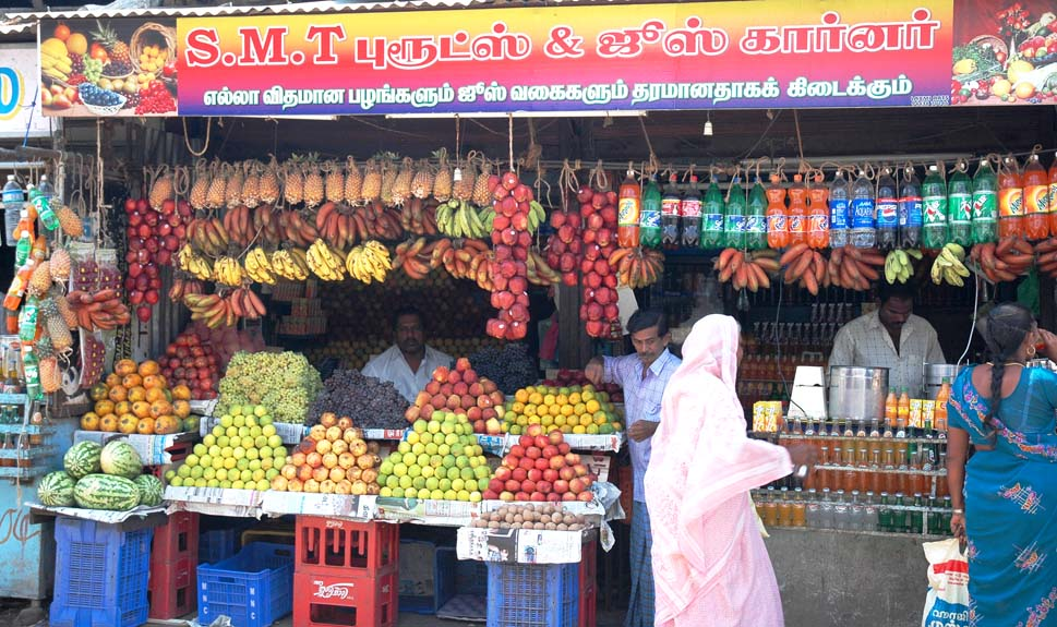 Wayside fruitshops are a pleasure to watch in Tamil Nadu. I found this one in Tenkasi, Thirunalveli District. The meticulous care that goes into arranging these fragile ware is truly amazing!